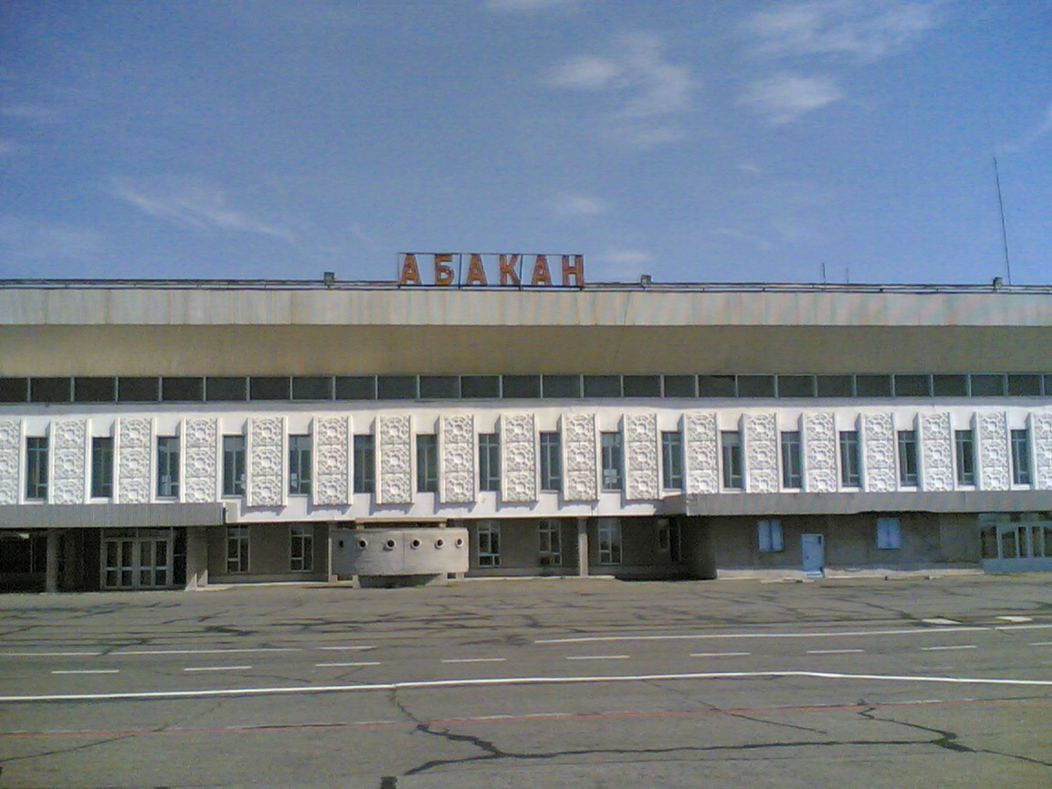 Abakan Airport.